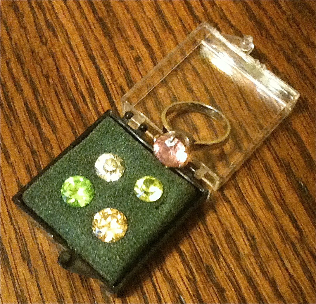 Yttralox transparent ceramic gemstones of various colors.